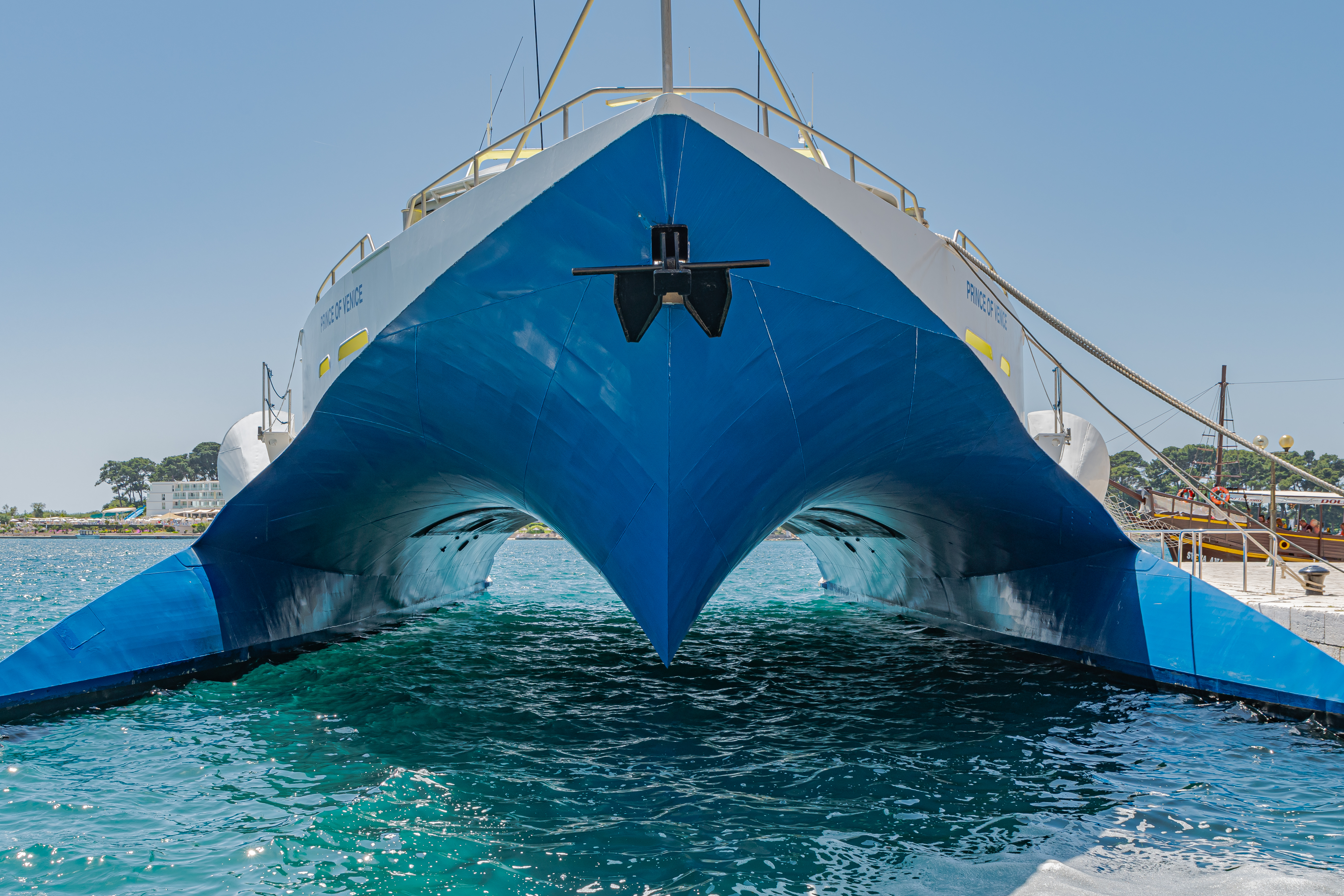 The trimaran motorboat Prince of Venice was built in 1989 and belongs to Adriatic Lines in Poreč, Croatia.